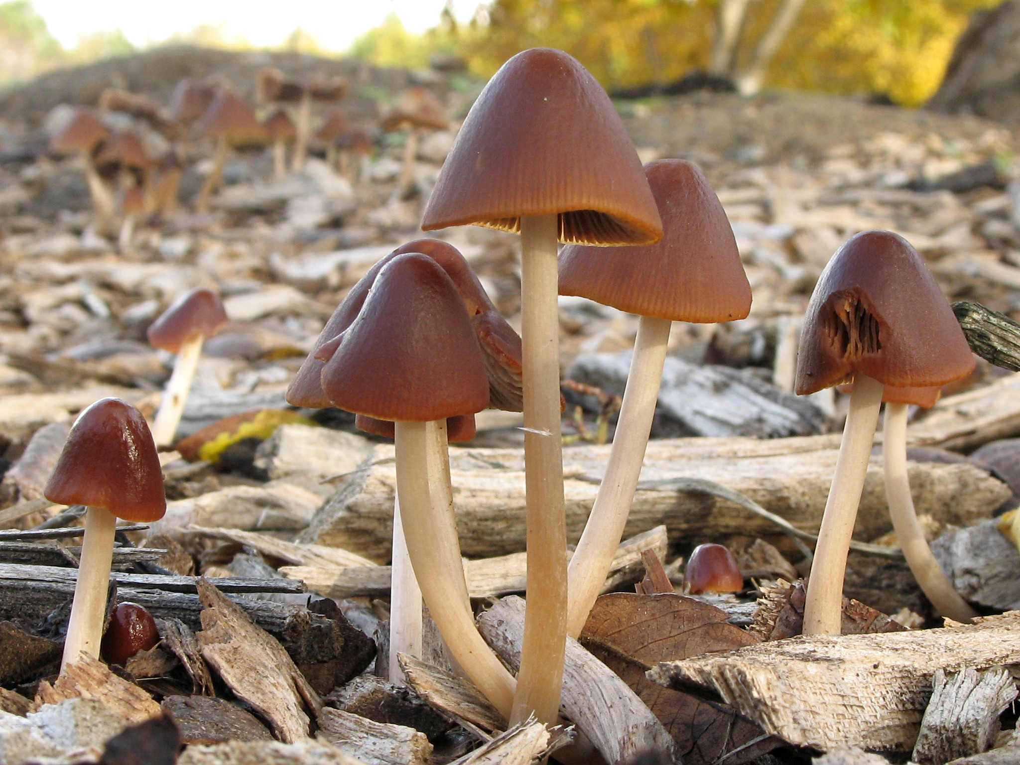 Fruitbodies of the agaric fungus Psathyrella atrospora A.H. Sm.; photographed in Davis, California, USA. See Mushroom Observer page for detailed collection notes.